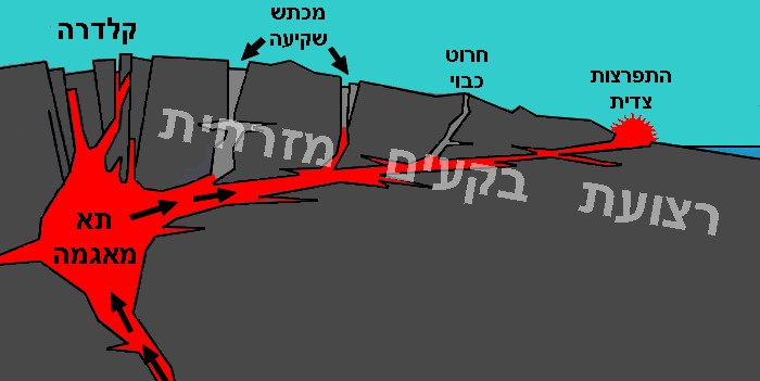 Cross section of Kilauea